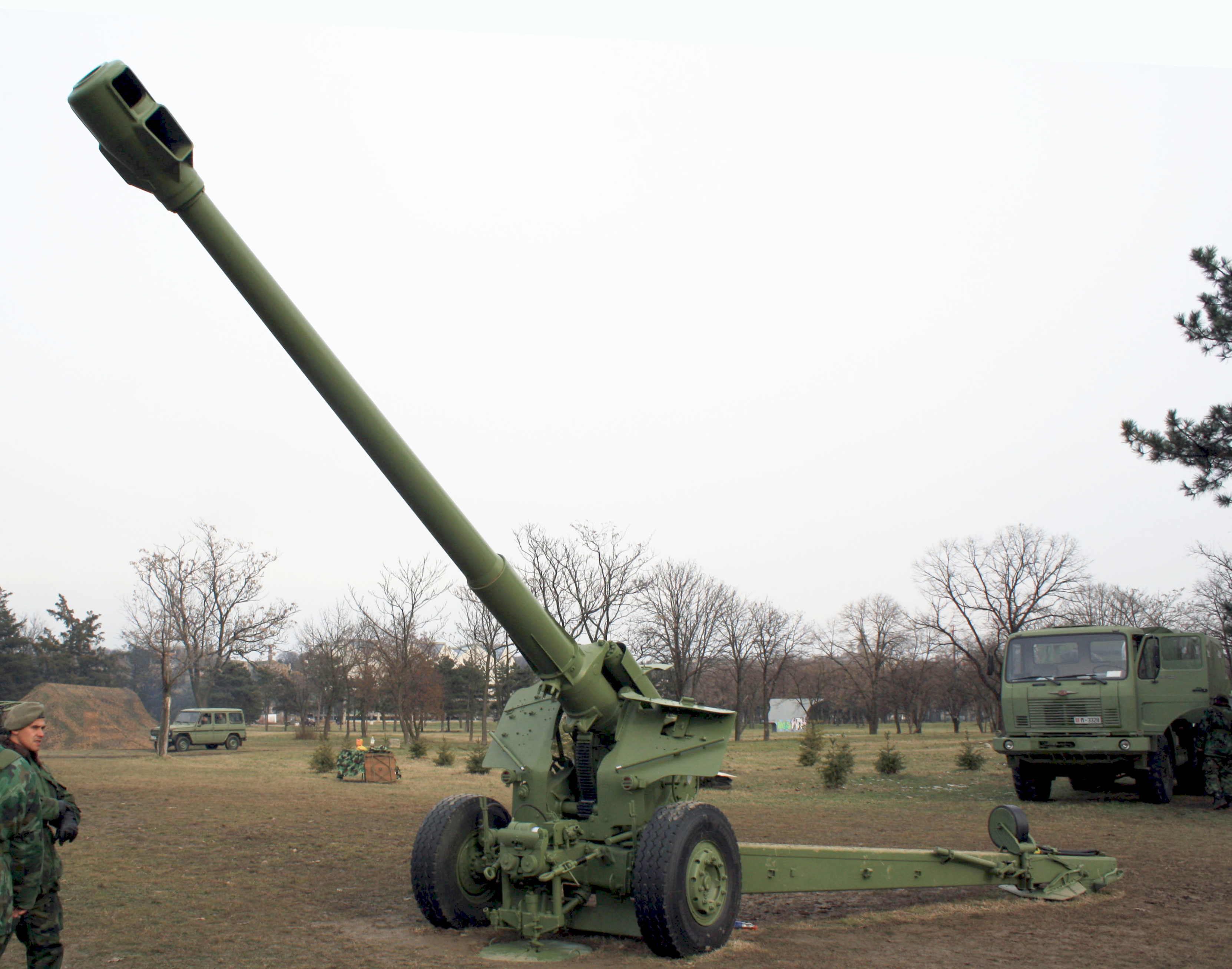 Nora M-84 152mm howitzer of Serbian Army on display after military exercise "Ušće 2011".